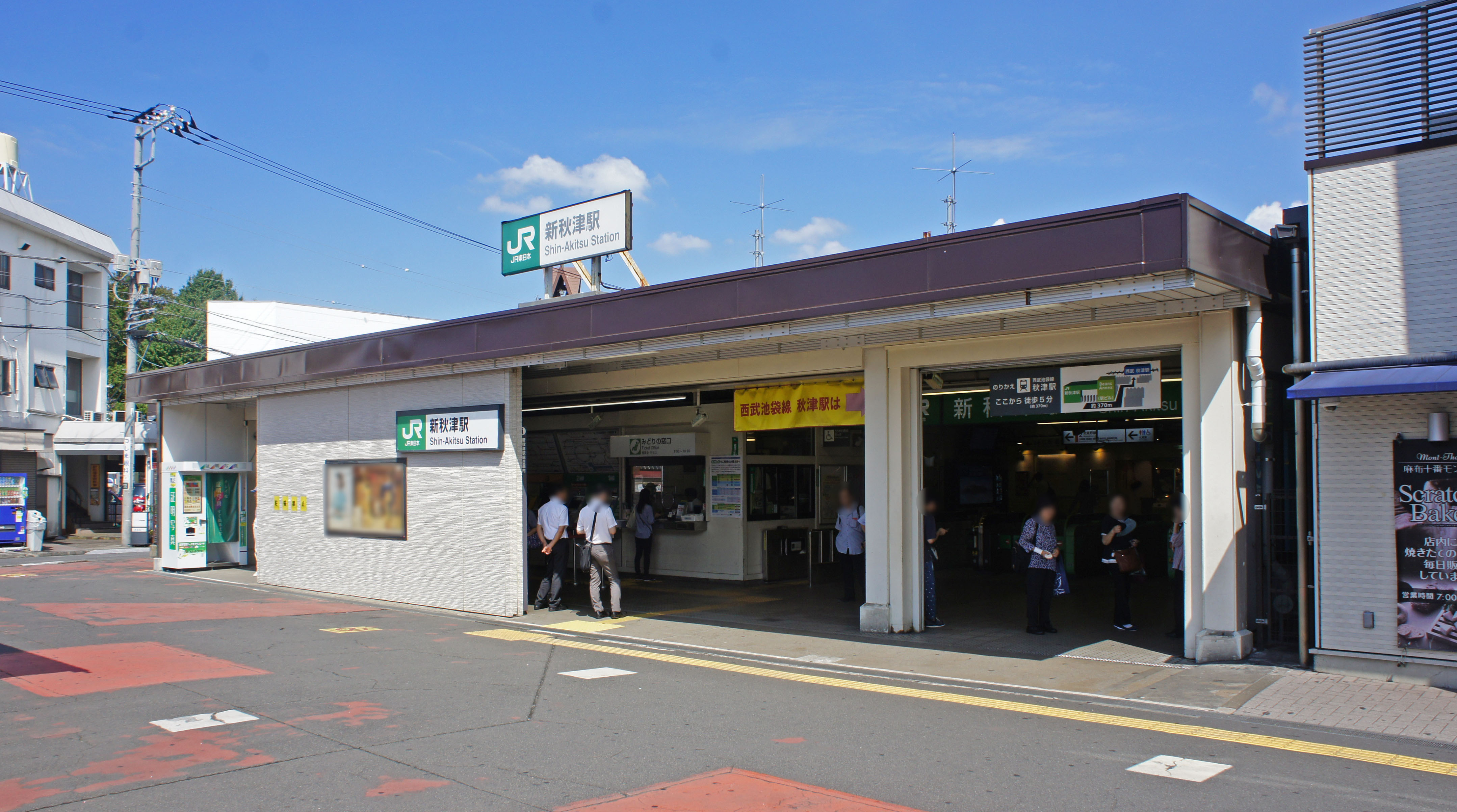 Station building of JR Musashino-Line Shin-Akitsu Station